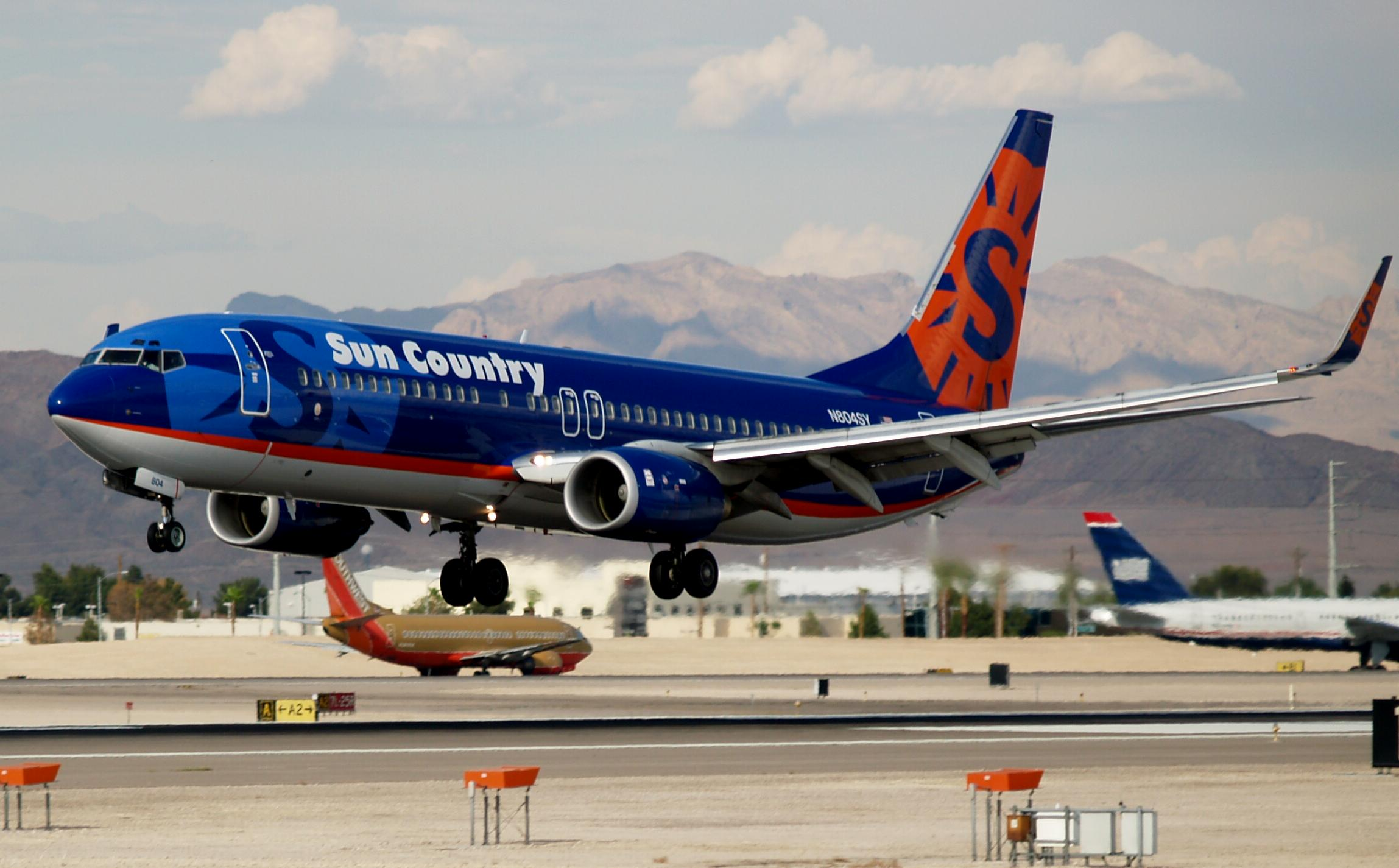 Sun Country Airlines Boeing 737-800 at Las Vegas, Nevada